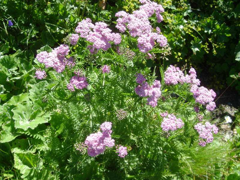 Achillea distans subsp. tanacetifolia